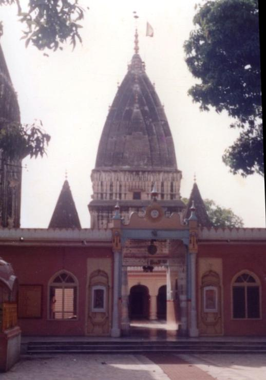 A front view with Sikhara of Raghunath Temple, Jammu, India, dedicated to Rama.